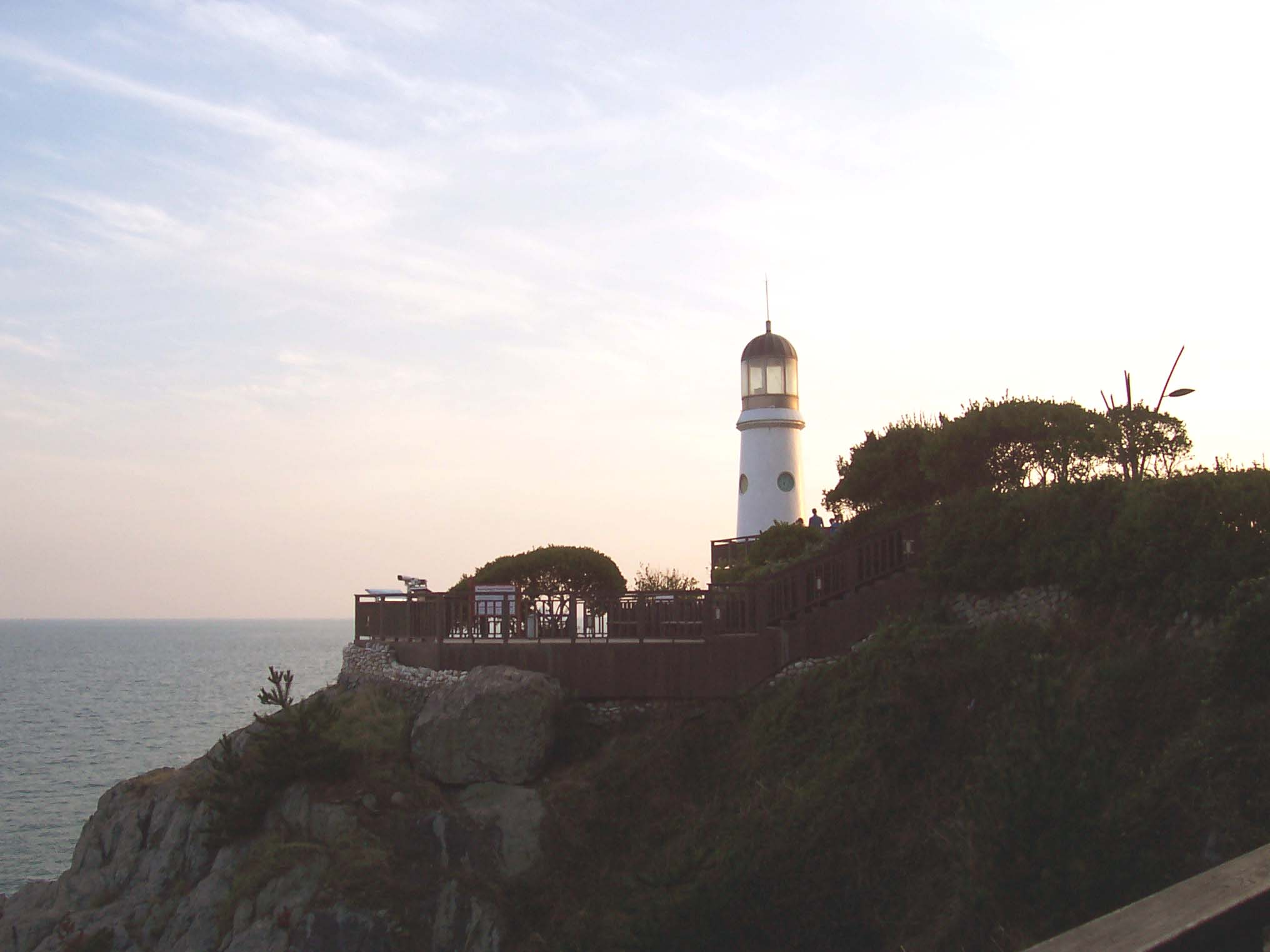 Light Tower at Haeundae Beach